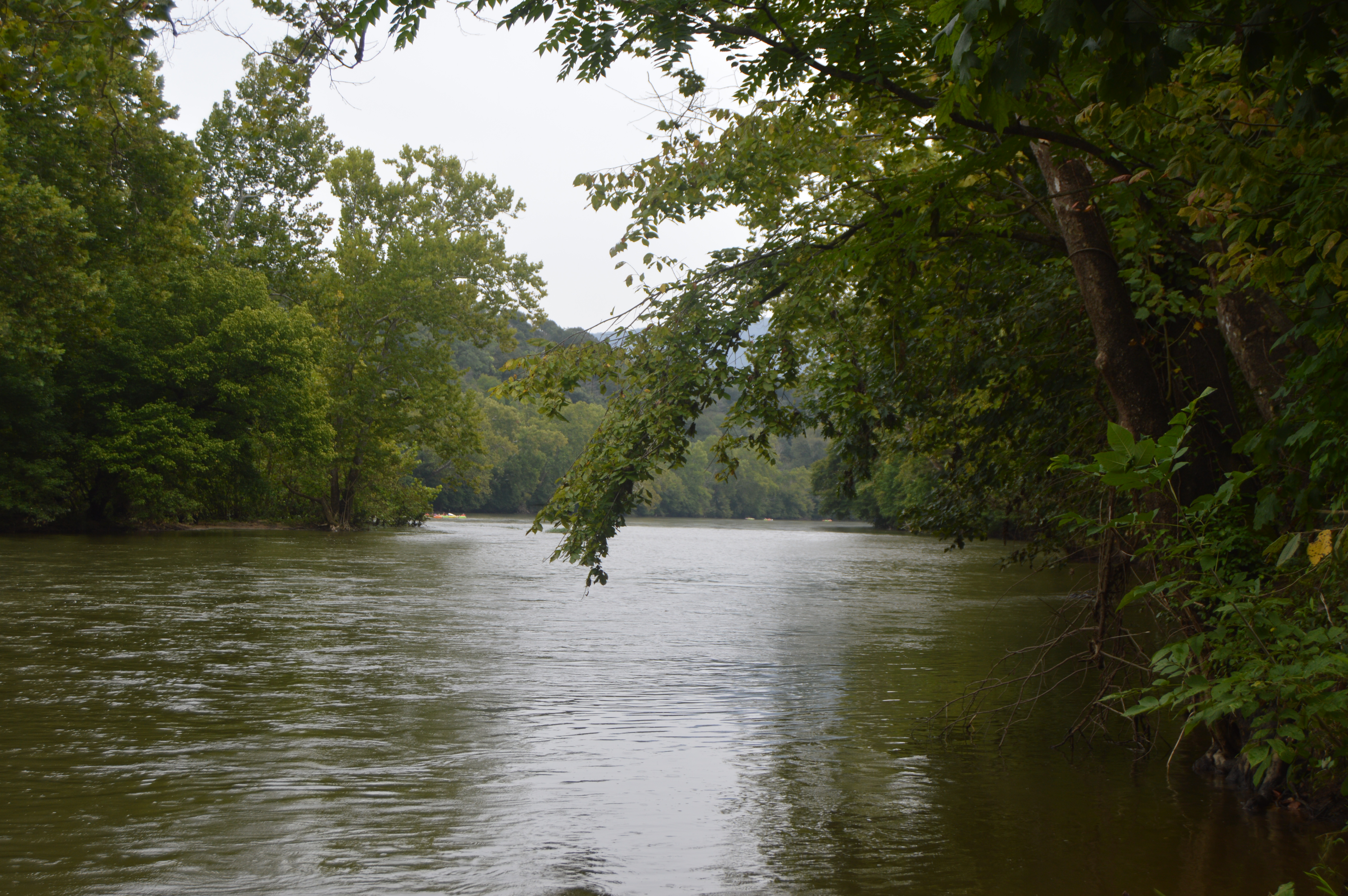 Looking upstream along the Shenandoah River southwest of Front Royal in Warren County, Virginia, United States. Straddling the river is the Flint Run Archeological District, a group of archaeological sites that has been listed on the National Register of Historic Places as a historic district.